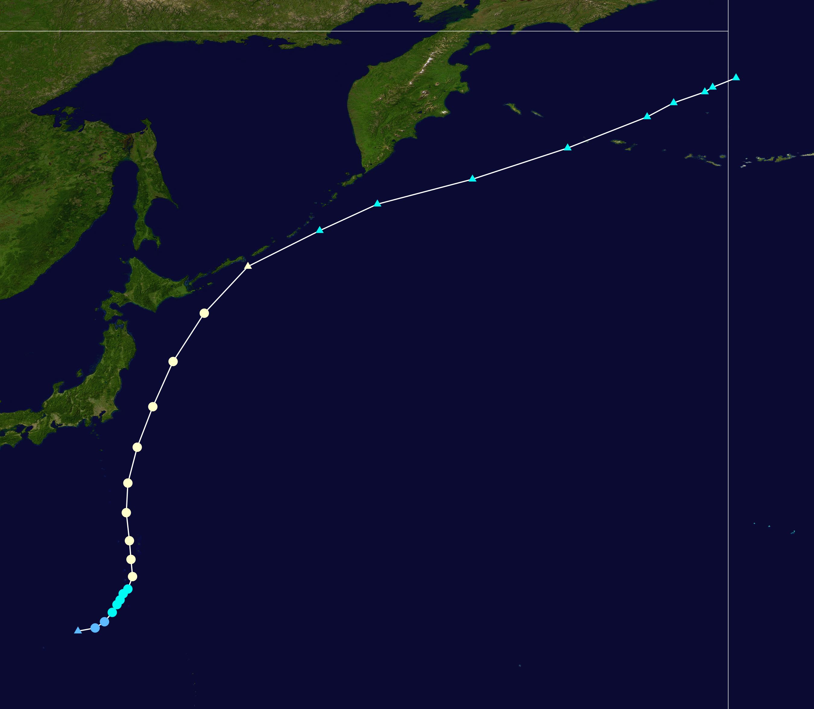 Track map of Severe Tropical Storm Sonamu of the 2000 Pacific typhoon season. The points show the location of the storm at 6-hour intervals. The colour represents the storm's maximum sustained wind speeds as classified in the Saffir–Simpson scale (see below), and the shape of the data points represent the nature of the storm, according to the legend below. Saffir–Simpson scale Tropical depression≤38 mph≤62 km/h Category 3111–129 mph178–208 km/h Tropical storm39–73 mph63–118 km/h Category 4130–156 mph209–251 km/h Category 174–95 mph119–153 km/h Category 5≥157 mph≥252 km/h Category 296–110 mph154–177 km/h Unknown Storm type Tropical cyclone Subtropical cyclone Extratropical cyclone / Remnant low / Tropical disturbance / Monsoon depression